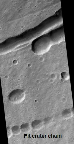 Tyrrhena Patera pit crater chains, as seen by hirise. Location is 21.9 degrees south latitude and 106.7 degrees east longitude. Image was taken by the Mars Reconnaissance Orbiter's HiRISE. The HiRISE camera was built by Ball Aerospace and Technology Corporation and is operated by the University of Arizona. Image courtesy NASA/JPL/University of Arizona.